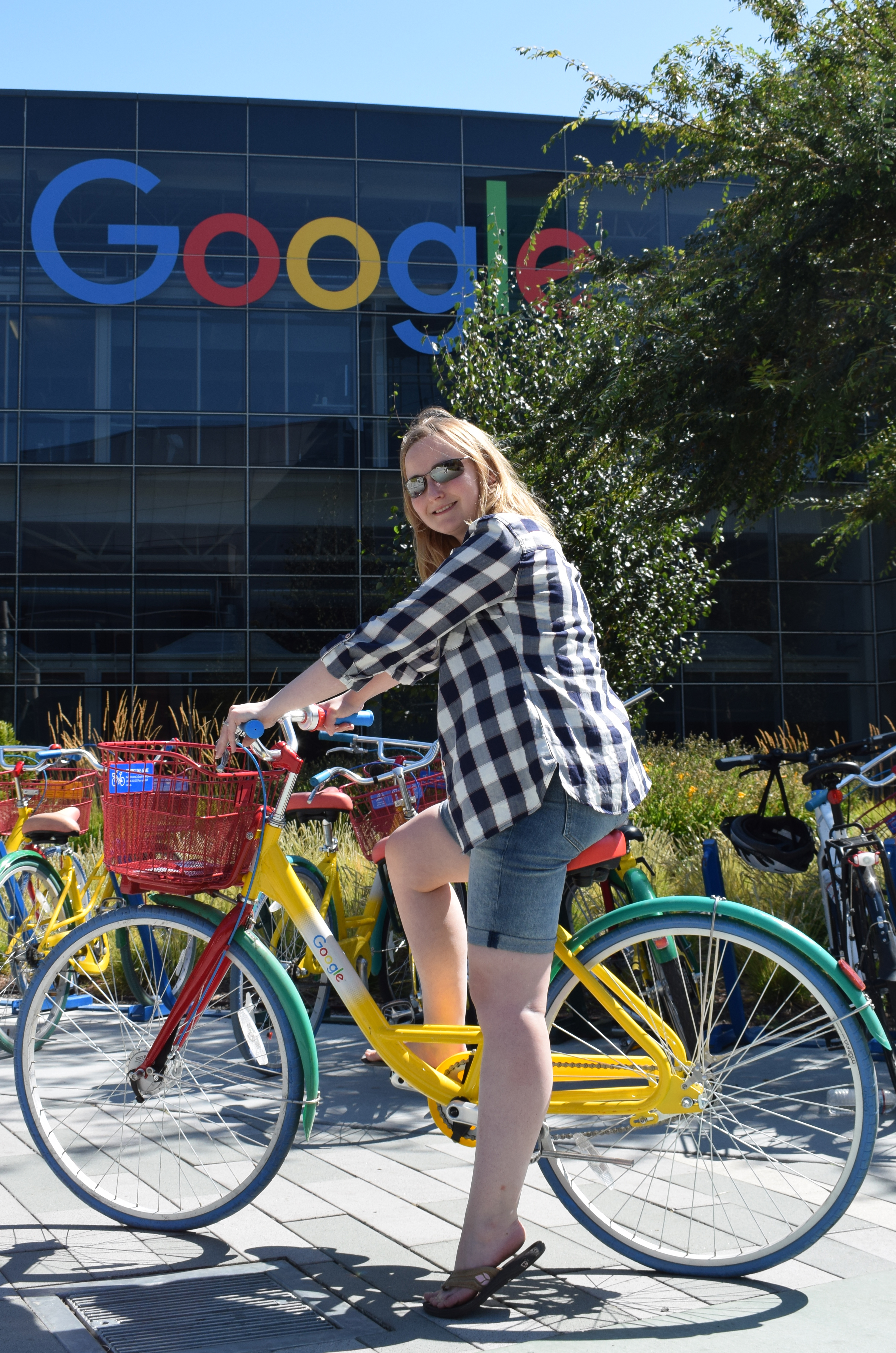 Abbie Hutty at Google, Mountain View, August 2017 for Sci Foo camp